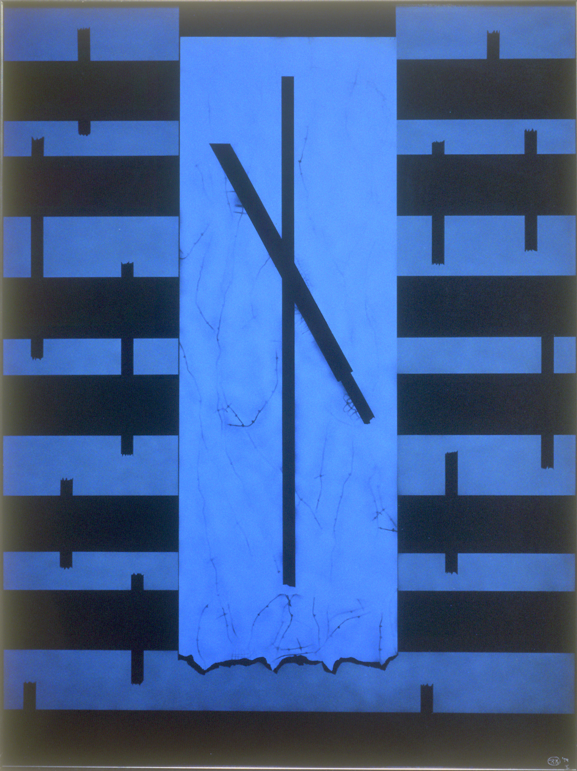 “Stations of the Cross I: Christ Condemned” — glass art by Robert Kehlmann (1995). Saint Mary’s College of California collection, in Moraga, California. Photo: Kehlmann Studio Archive, date 1995.